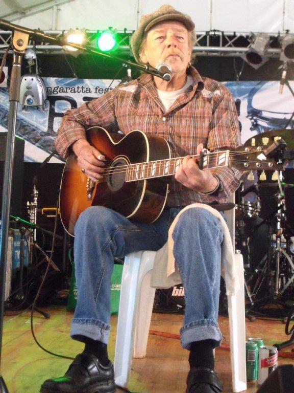 Dutch Tilders, onstage at the Wangaratta Jazz Festival, 2010.